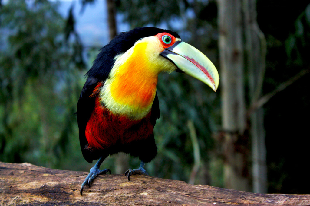 A Red-breasted Toucan at Gramado Zoo, Gramado, Rio Grande do Sul, Brazil. Red-breasted Toucan